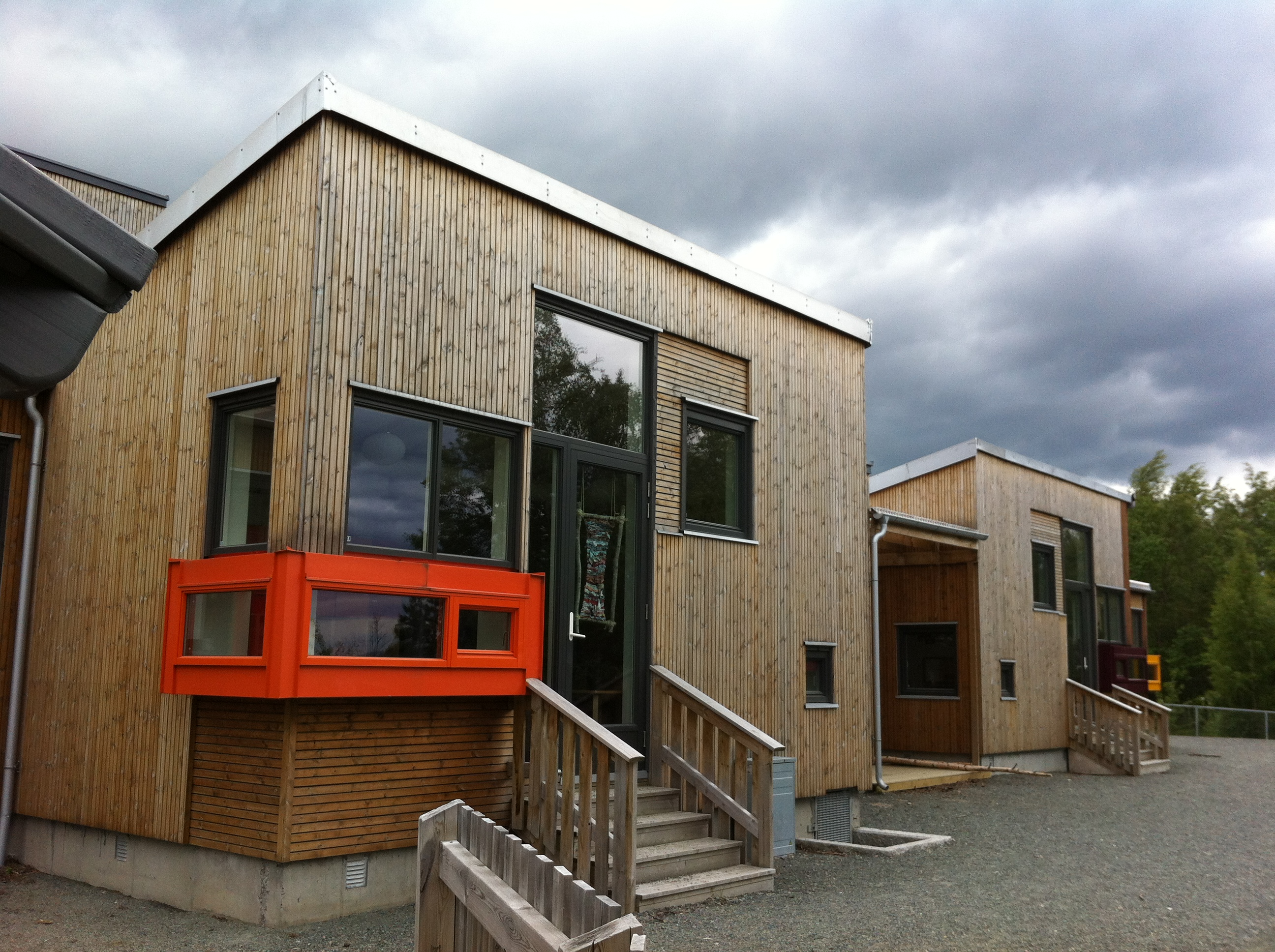 One of two winners of the Trondheim kommunes (municipality's) 2012 architecture prize, Lohove kindergarten, Trondheim, Norway. Architect: Svein Skibnes Arkitektkontor AS